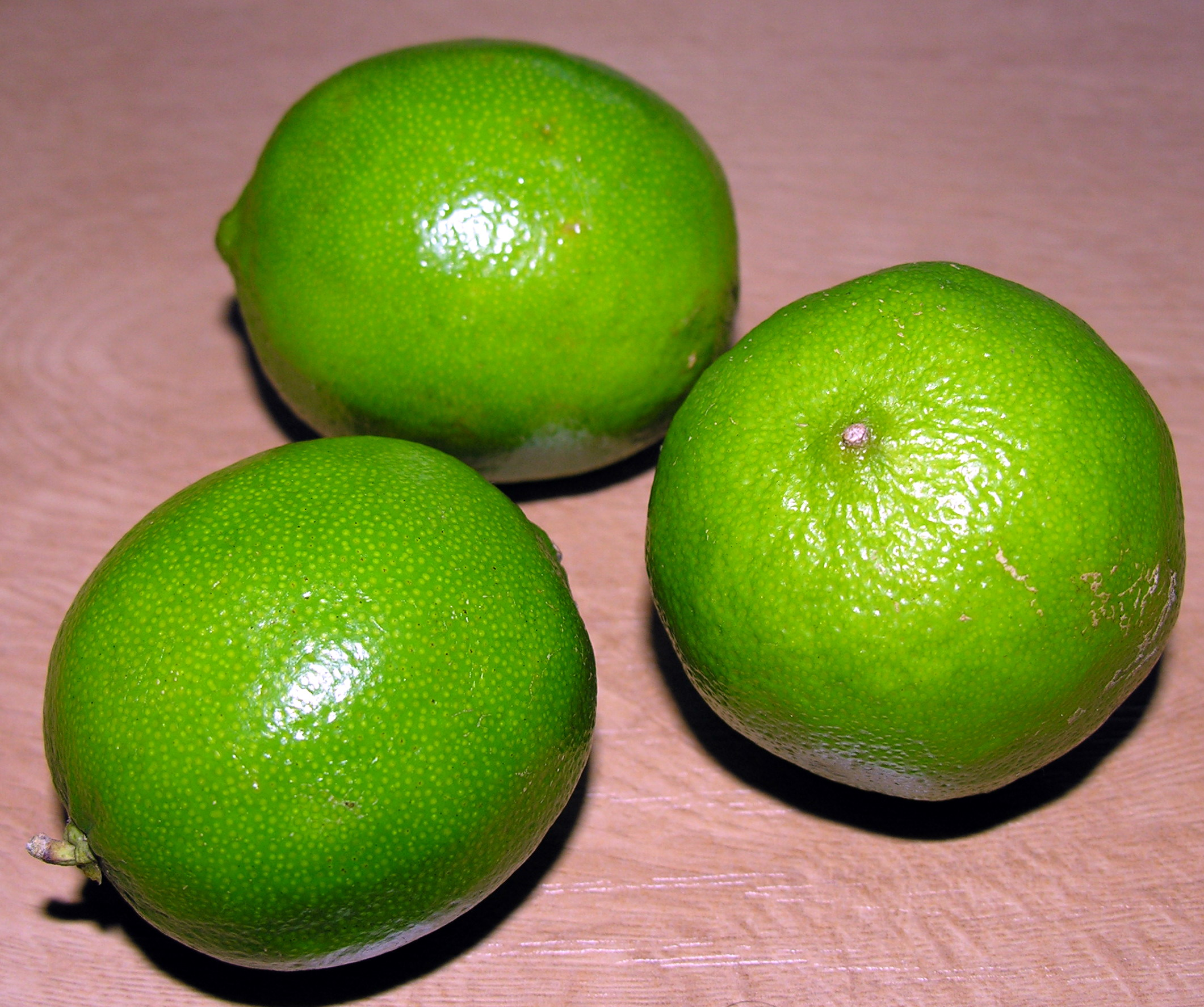 Key lime. Fruits